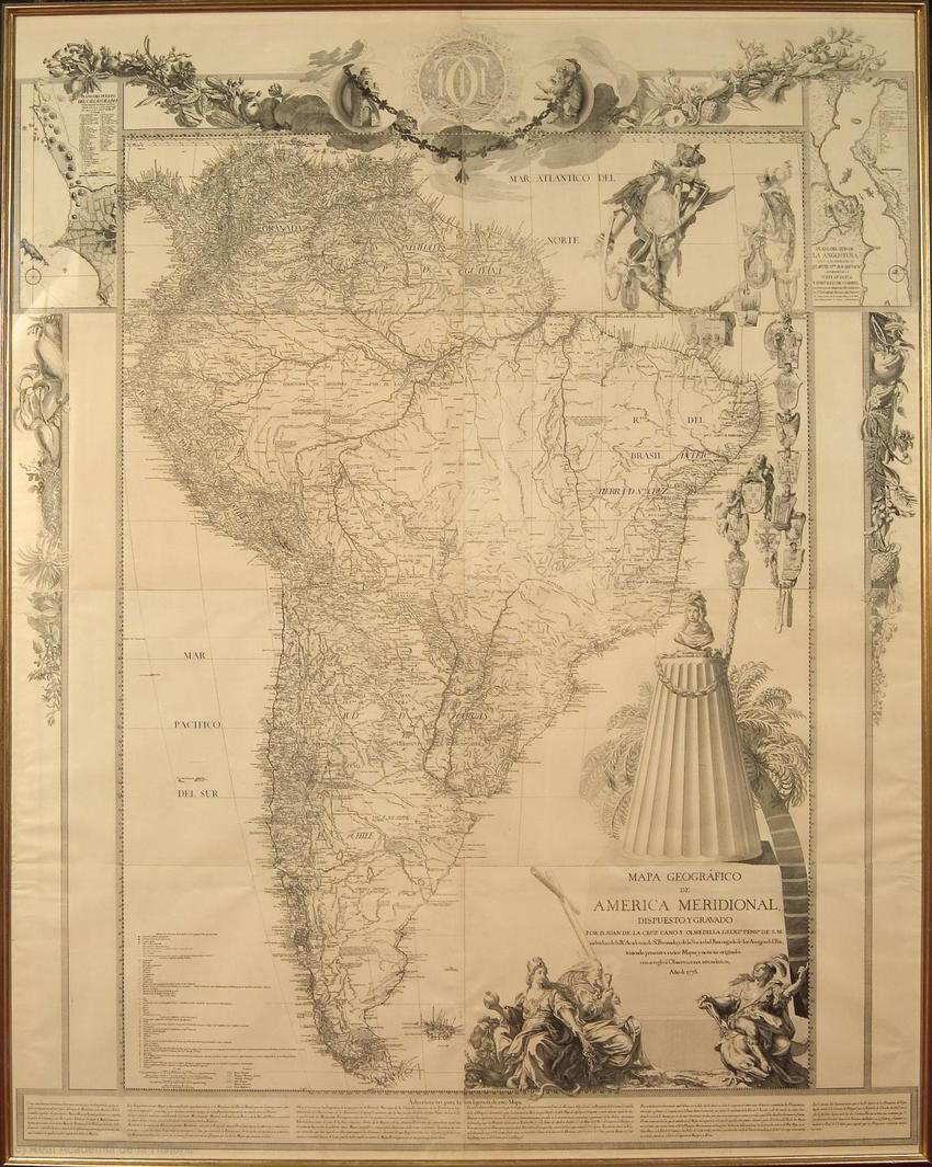 Geographical Map of South America, prepared and engraved by Don Juan De La Cruz Cano y Olmedilla, Geographer, Chosen by His Majesty, individual of the Royal Academy of San Fernando, and the Royal Basque Society of Friends of the Country; keeping in mind Various Maps and original reports according to Astronomical Observations, Year of 1775. (This is the 2nd edition, the first having been printed for proofreading only.)